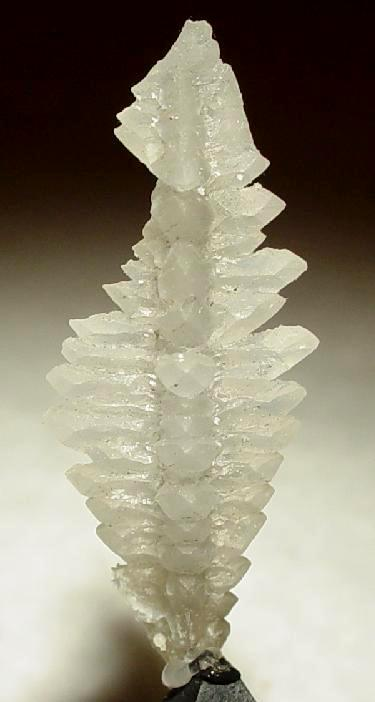 Salammoniac Locality: former Ravat Village, Yagnob River, joint of Zeravshan and Gissar Range, Viloyati Sogd (Viloyati Sughd), Tajikistan (Locality at ) Size: miniature, 3.3 x 1.4 x 1.4 cm Salammoniac A great specimen of a MOST unusual mineral. The crystals have grown in a feather-like form with four sets of growth 90 degrees apart. With such high-quality individual crystals and such an excellent aesthetic form, this is a dynamite specimen in every aspect. 3.3 x 1.4 x 1.4 cm